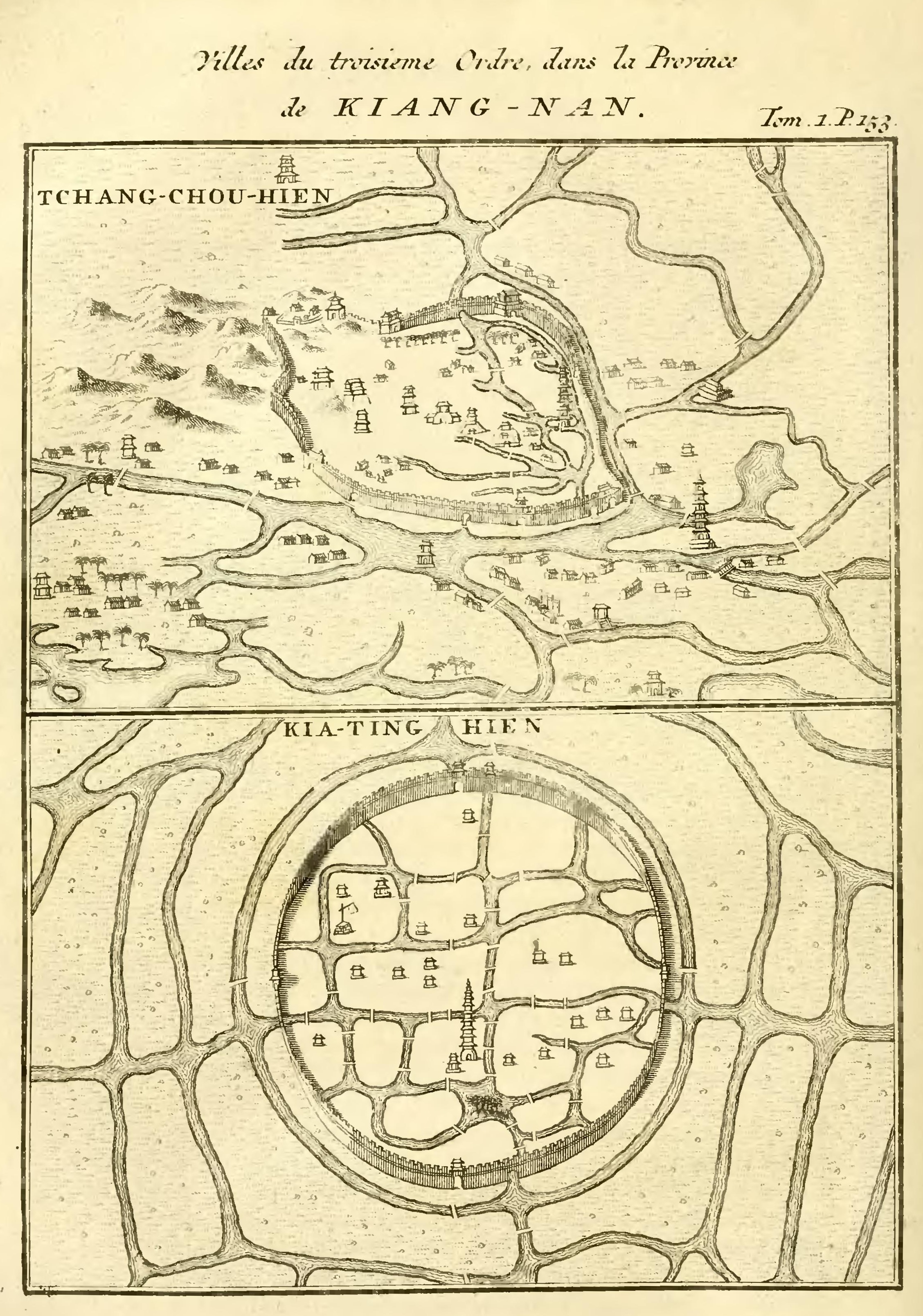 Two "3rd-level" towns of Jiangnan: Changzhouxian (長洲縣, which administered part of Suzhou) in Jiangsu and Jiatingxian (嘉定縣) in Shanghai. An engraving from the Dutch reprint of Du Halde's Description of China, Vol. I, p. 153.